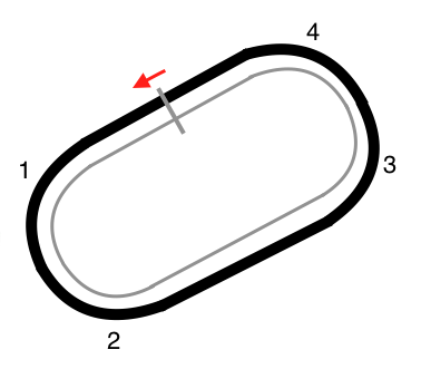 This file is a map of the Bristol Motor Speedway in Bristol, Tennessee.